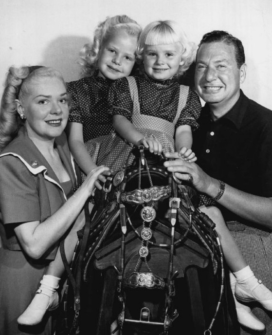 Photo of Alice Faye and Phil Harris with their two daughters, Alice (left) and Phyllis (right).